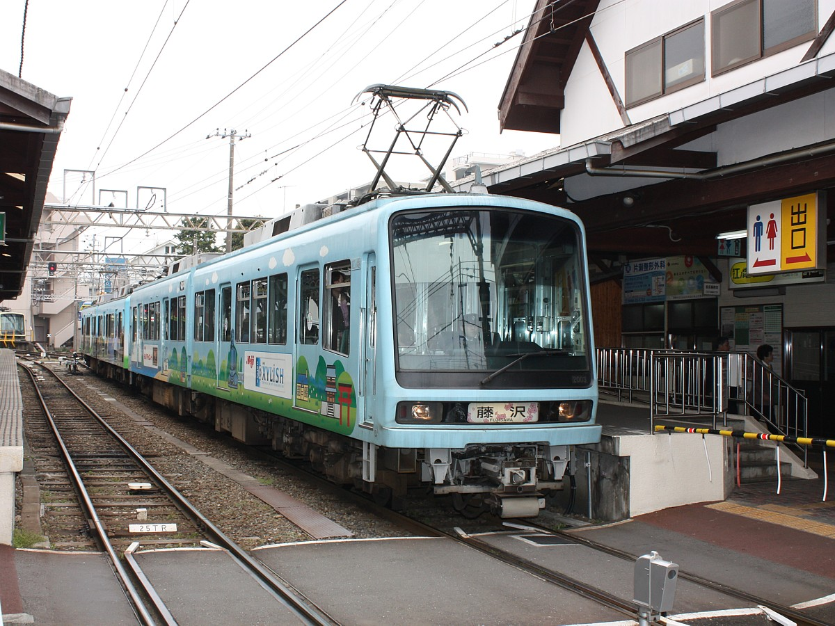 Enoden Type 2000 at Enoshima Station